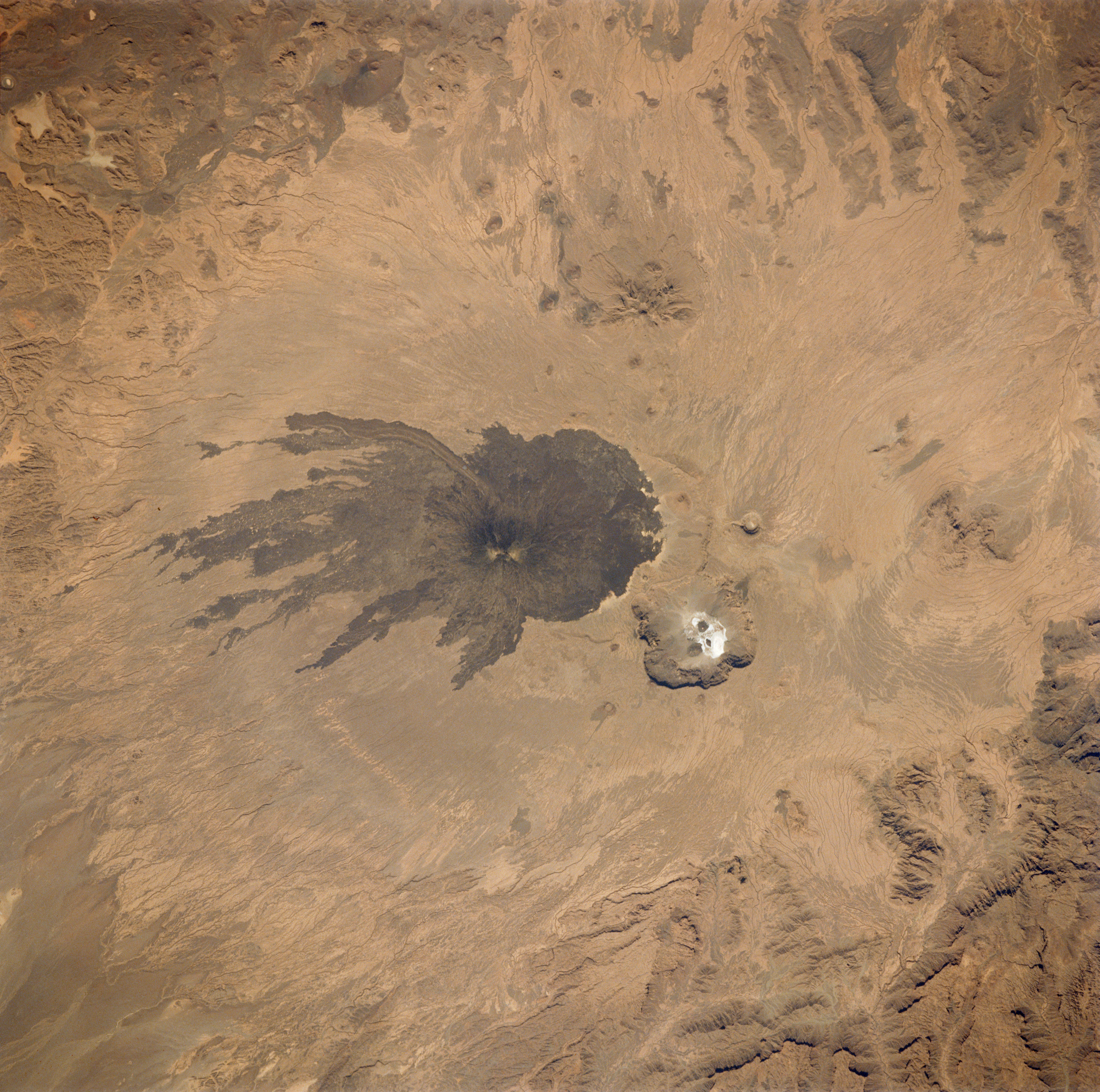 Tousside, Tibesti Mountains, Chad The Tibesti Mountains in northwestern Chad consist of rugged volcanic peaks, many impressive craters, and hot springs. Near the center of the photograph is Tousside Peak, which rises more than 10 710 feet (3265 meters) above sea level, the westernmost volcano of this high mountain range. The peak is almost centered within the black shape that has tentacle-shaped lava flows extending down the western flank. The volcano’s base measures approximately 55 miles (90 kilometers) in diameter. The light brownish area surrounding the peak shows a distinctive radial drainage pattern that is quite common for stratovolcanoes as the terrain falls away from the main peak. The depression southeast of the volcano measures approximately 5 miles (8 kilometers) in diameter and 3300 feet (1000 meters) in depth. The white base is caused by an accumulation of carbonate salts, creating this soda lake of Tibesti. With the exception of small vents that emit gasses and a few hot springs that continue to deposit minerals at the surface of the crater floor, little volcanic activity presently occurs in this region.